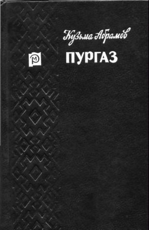 skan